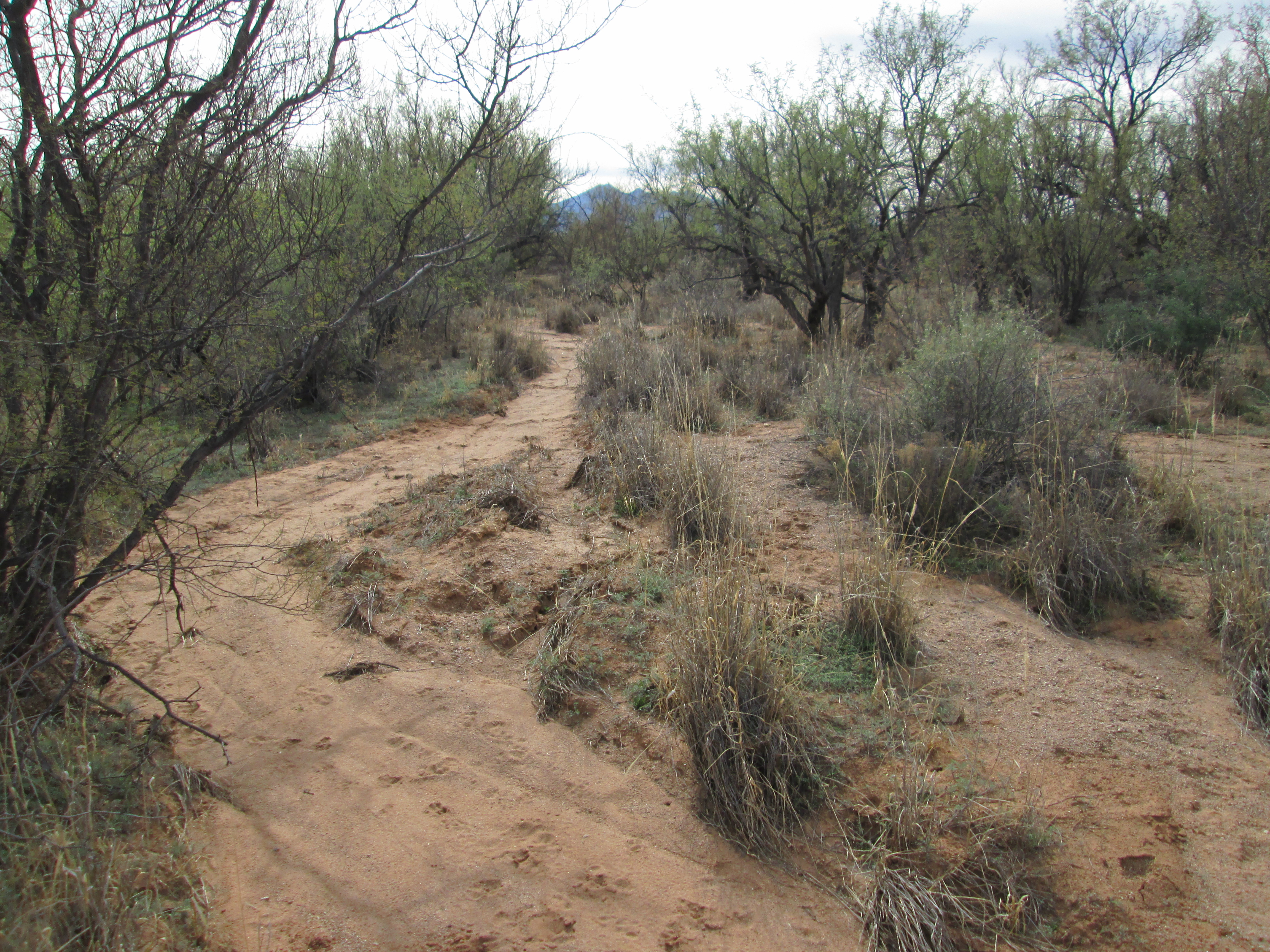 Mesquite Bosque outside of Sahuarita, Arizona. The "trail" going through the center-left of the photo is actually a small, sandy wash (arroyo). January 18, 2014